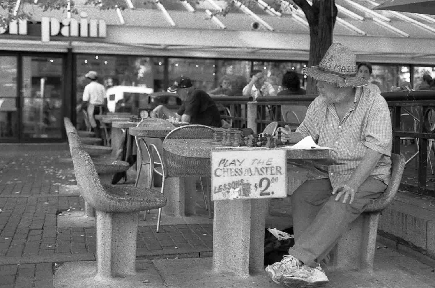 ChessMaster outside the campus